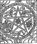 Pentacle on baptismal font of Sibenik Cathedral.